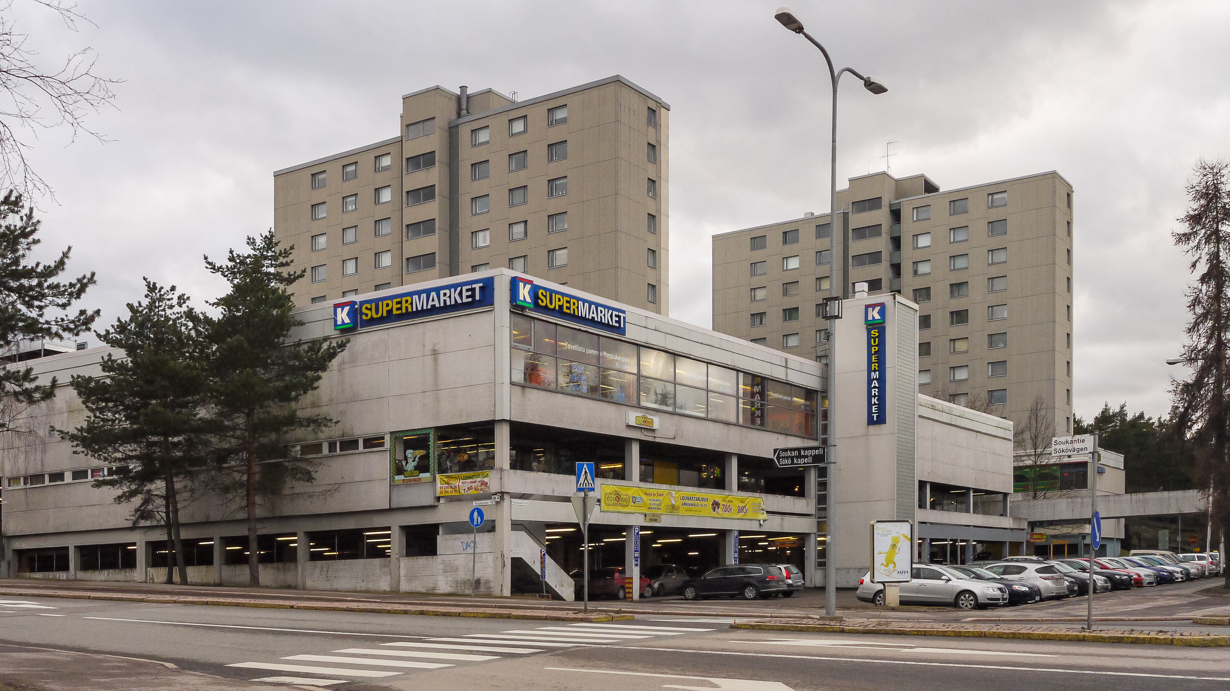 Shopping centre of Soukka, Espoo, Finland in April 2015.